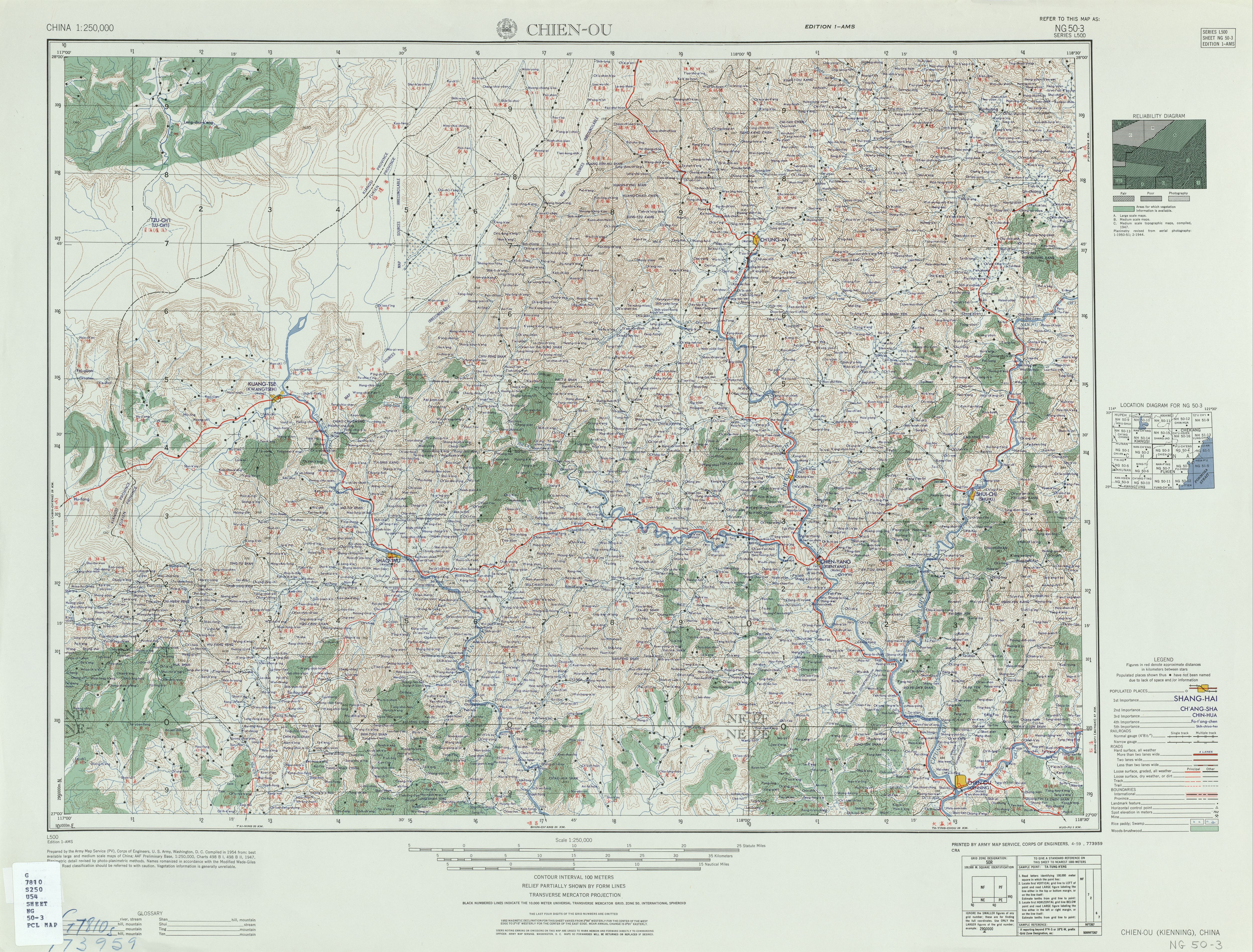 Map of the Jian'ou (Chien-ou, Kienning) area, Fujian